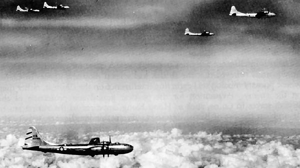 Twentieth Air Force B-29s on a mission to attack Rangoon, Burma, 1944